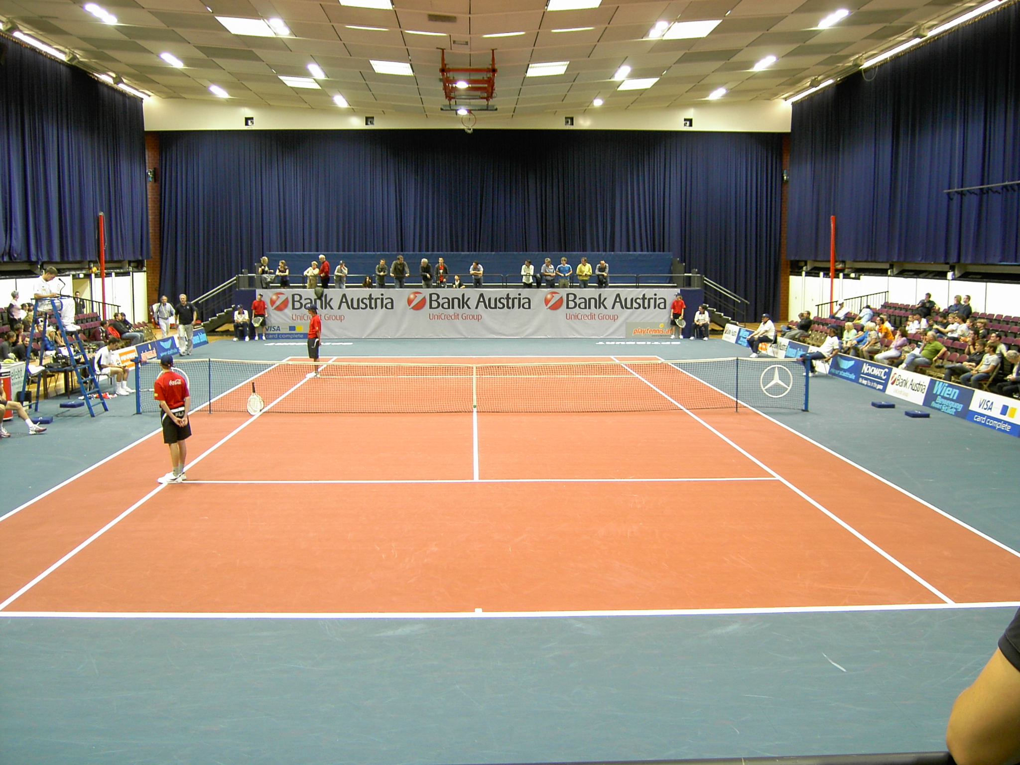 Court No. 2 of the Bank Austria Tennis Trophy 2008